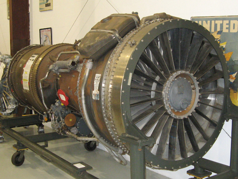 Pratt & Whitney TF33 turbofan, Valiant Air Museum, Titusville, Florida